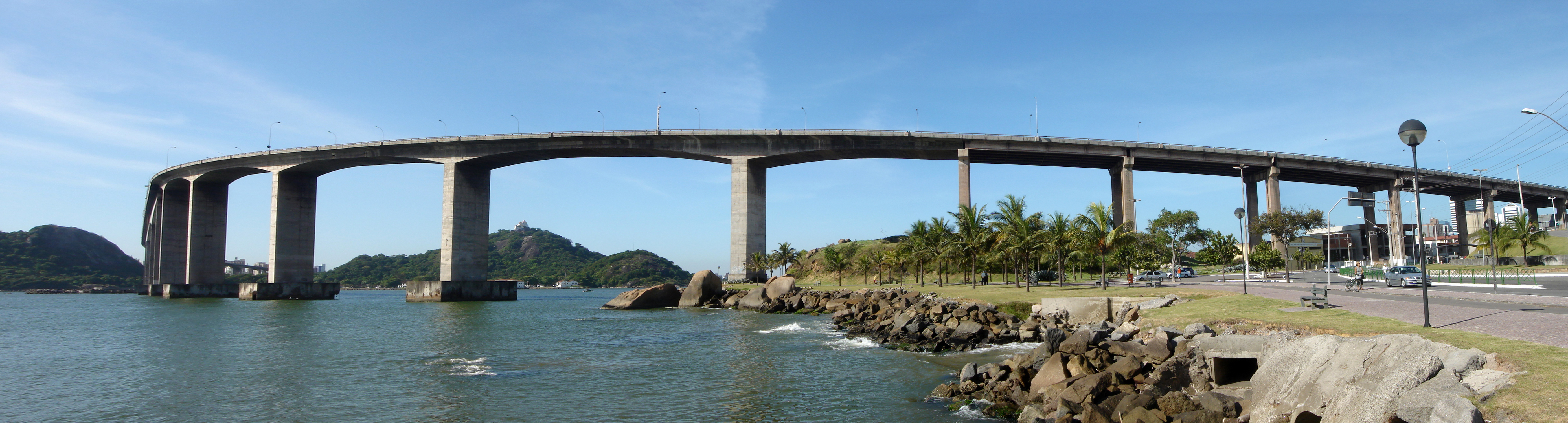 Panoramic view of Terceira Ponte de Vitoria, Espirito Santo, Brazil.